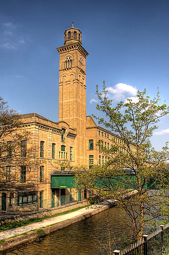 Salts Mill from side of the bridge over the Leeds & Liverpool Canal at Saltaire, West Yorkshire. Process: 5 x RAW to 1 x HDR then tone mapped to 1 x TIF